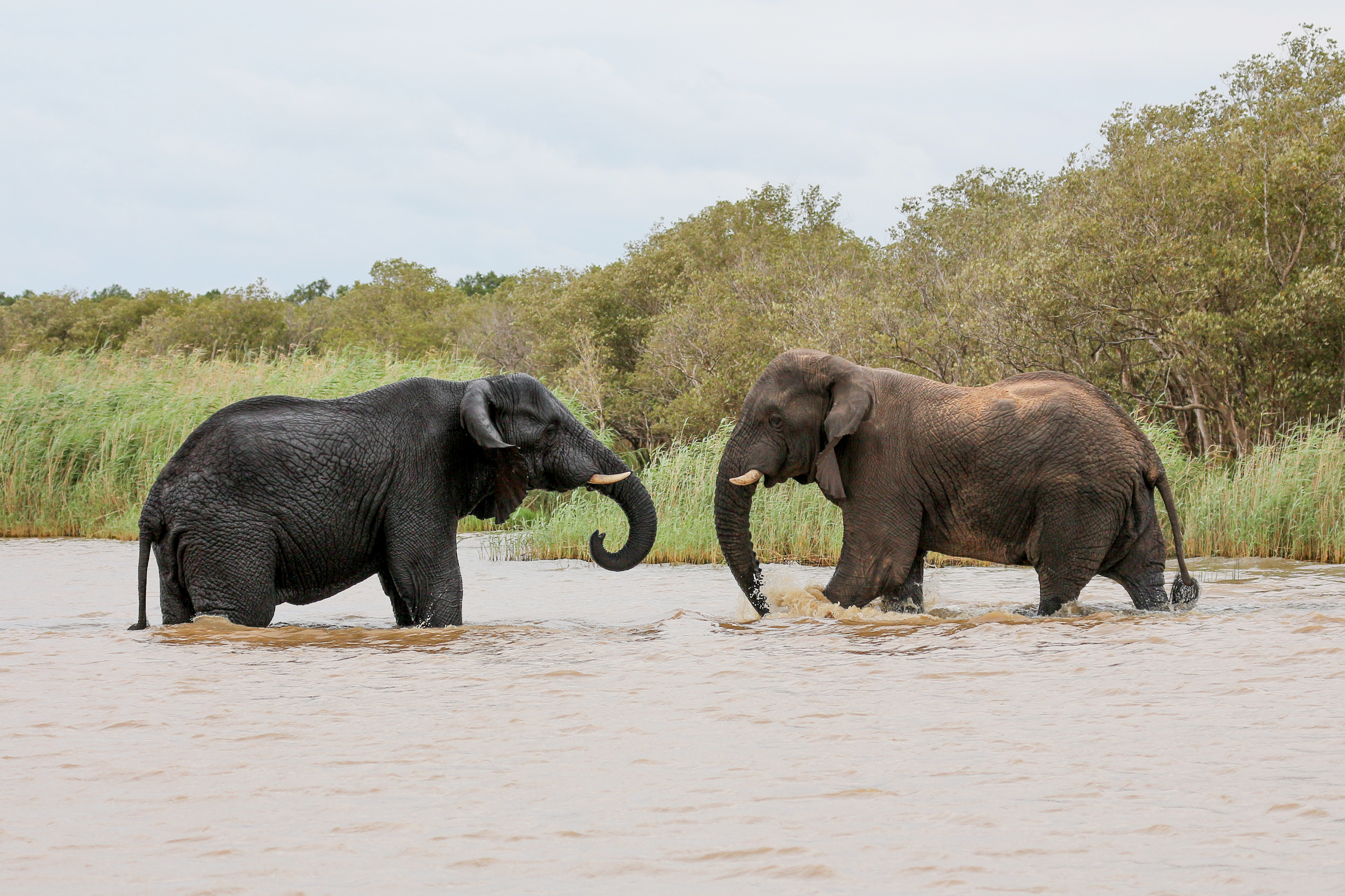 African elephants (Loxodonta africana), in Lake Saint Lucia estuary, South Africa